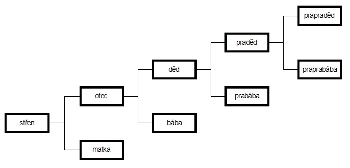 Sample Family Tree